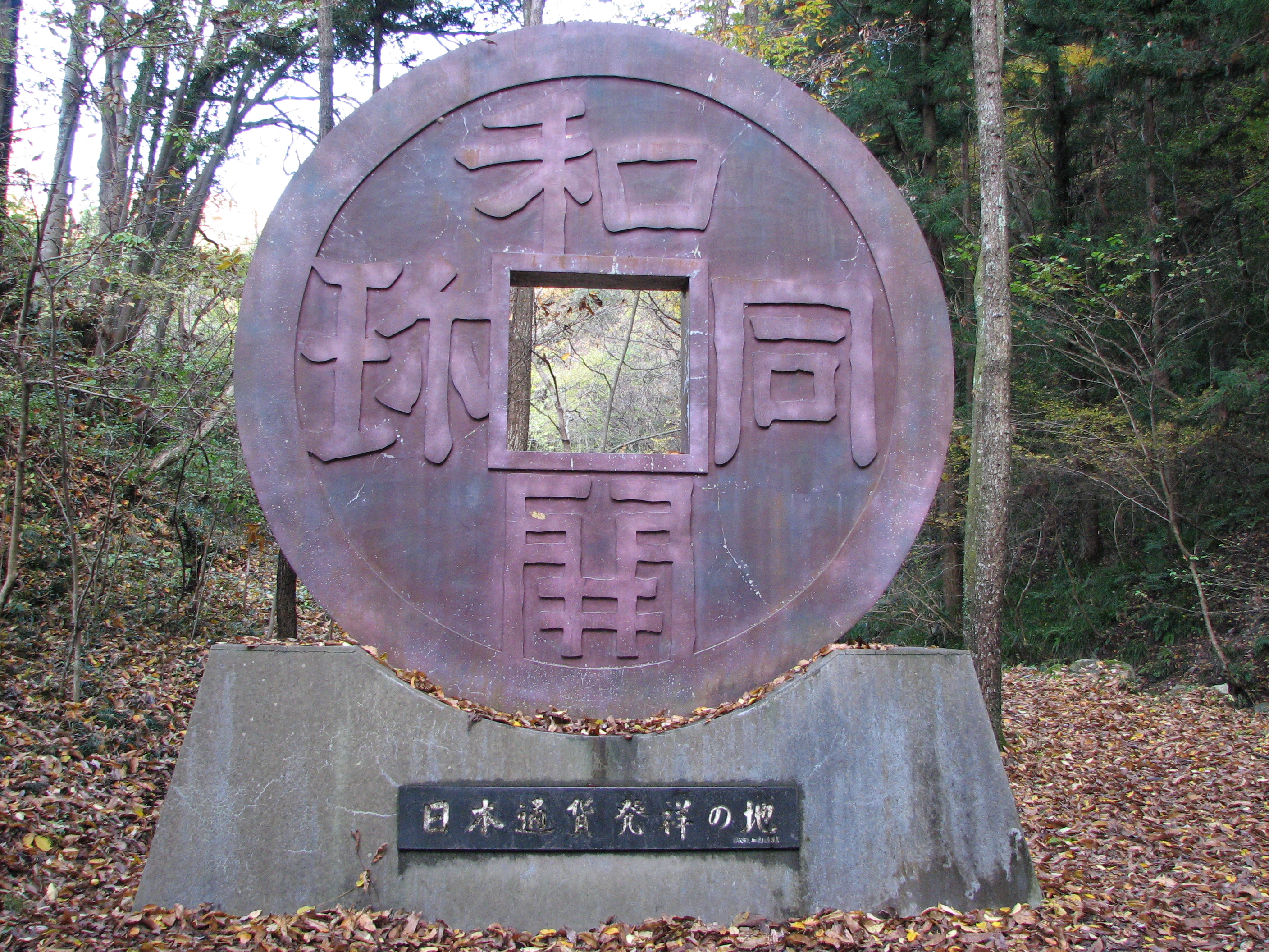 monument2,Kuroya,Chichibu,Saitama,Japan